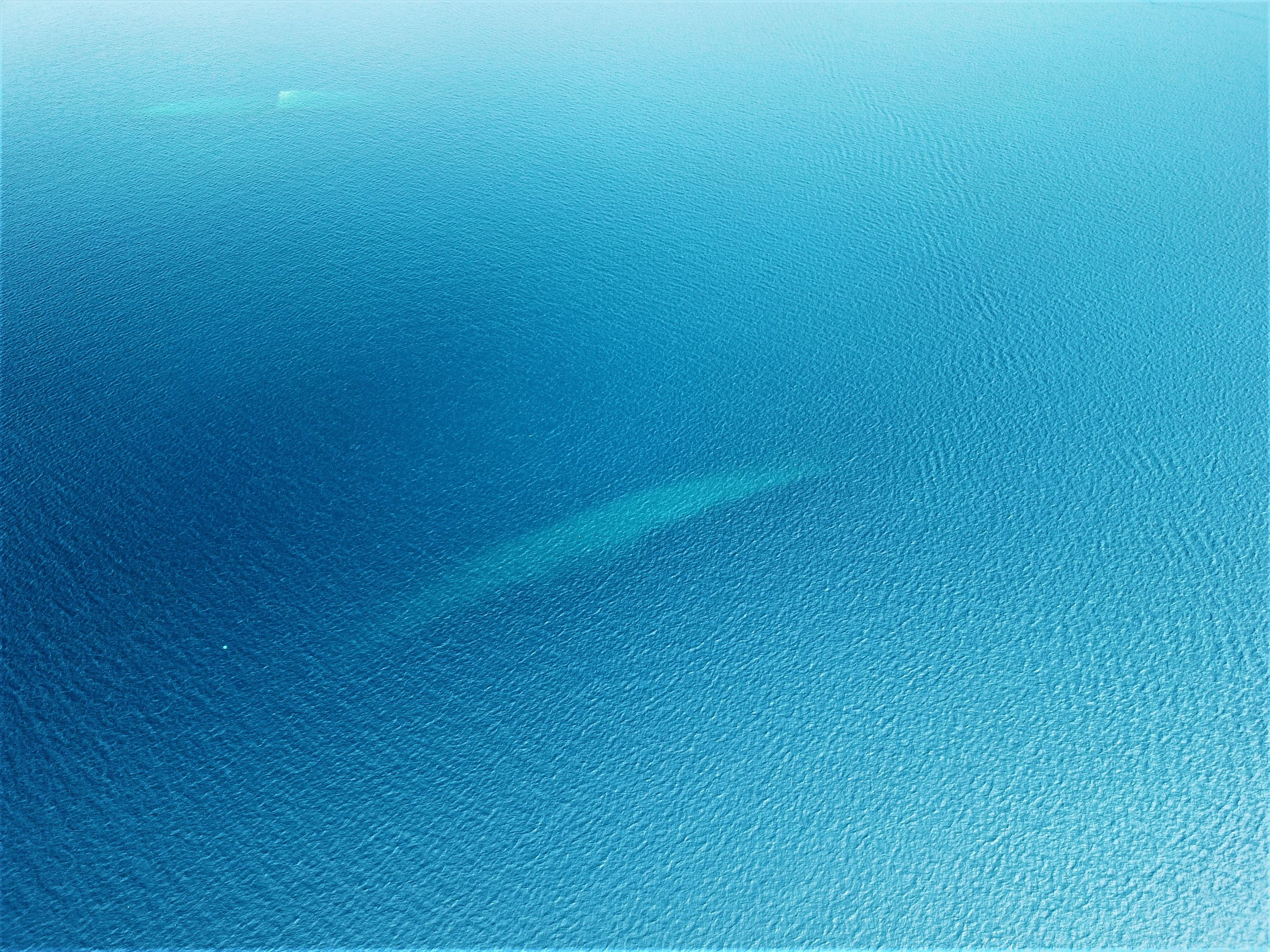 Kiyosumi maru